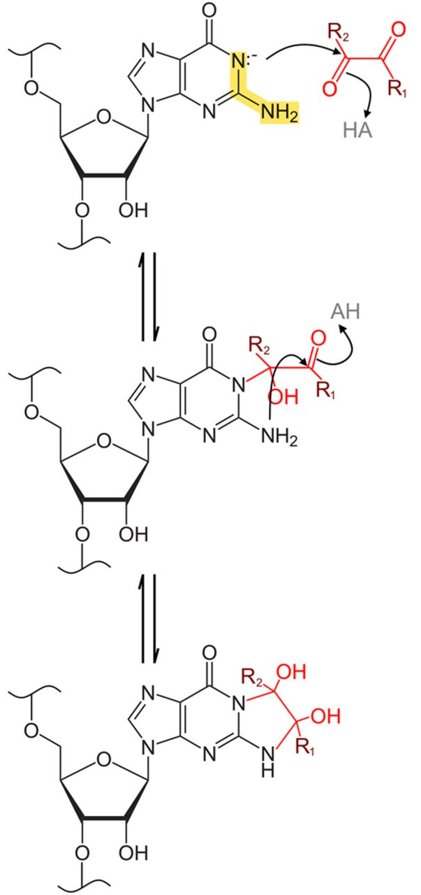 This depicts the mechanism by which glyoxal derivatives can react with guanines at N1 and N2. From: Mitchell D, Ritchey LE, Park H, Babitzke P, Assmann SM, Bevilacqua PC. 2018. Glyoxals as in vivo RNA structural probes of guanine base-pairing. RNA 24: 114–124.